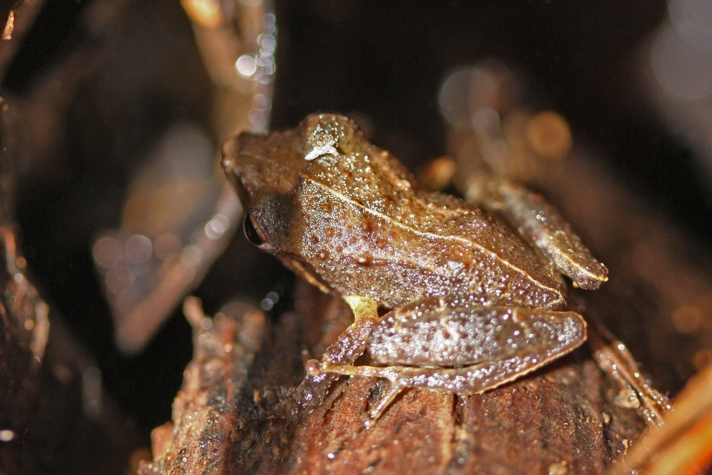 Found under fallen palm fronds during a climb of El Yunque, Guantanamo. I found 3 quite different looking frogs during this climb, but after a bit of home research I think they are all this one species. From what I've read, this species displays quite a wide range of colour variation and this identification is a best guess for the locality and general description. If you think it could be something else, please let me know.